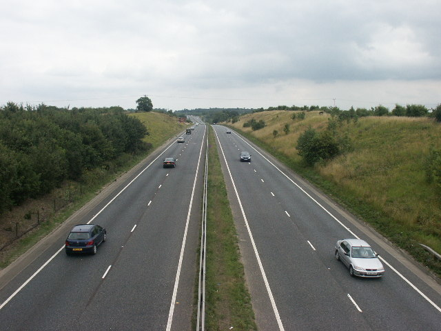 A47 Norwich Southern Bypass. Although this was taken from just into TG2305, the vast majority of the road seen here is in TG2405.